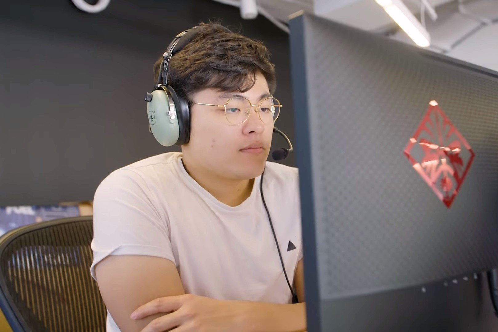 Gamsu (Noh Yeong-Jin) at the Dallas Fuel Facilities in 2020.